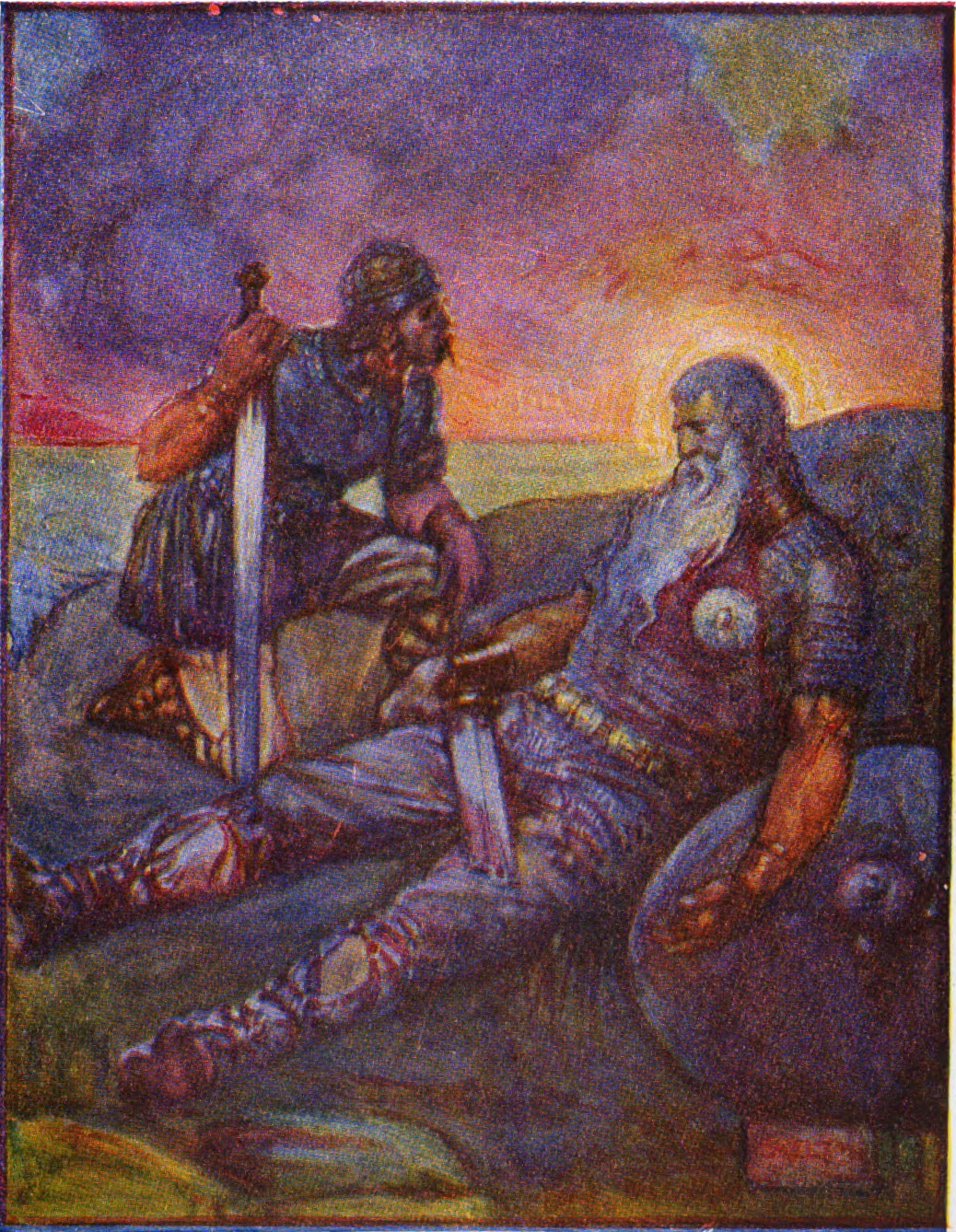 "He knew his days upon this earth were past" Wiglaf speaking to Beowulf after his battle with the dragon. Beowulf is mortally wounded. Marshall, Henrietta Elizabeth (1908) Stories of Beowulf, T.C. & E.C. Jack, p. 99